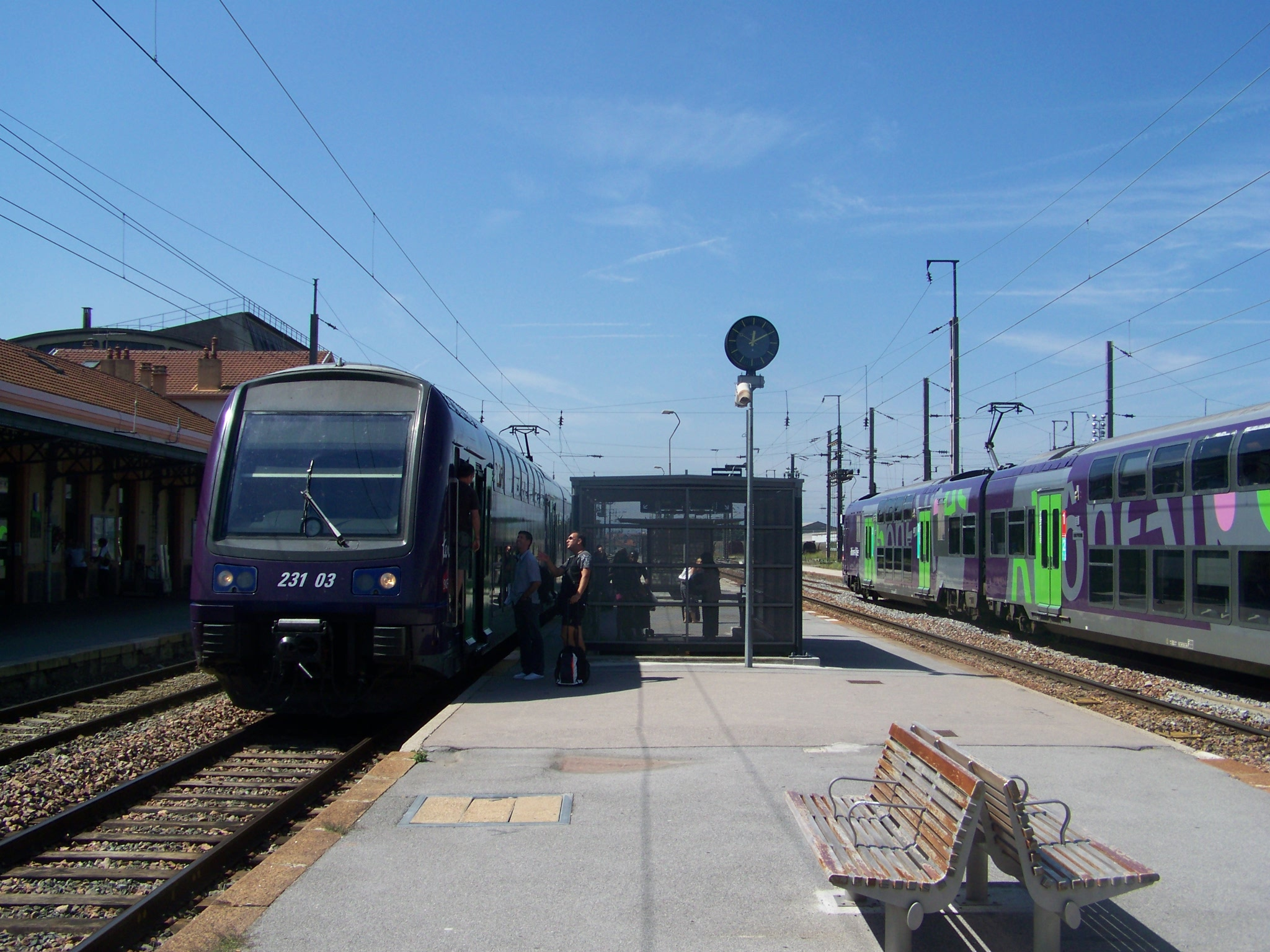 French regional and commuter trains stopping at Annemasse station, in Haute-Savoie.